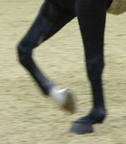 Example of the pastern absorbing the weight of the horse and concussive forces